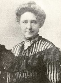 Catherine Everett "Kate" Adams Keller (1856—1921)